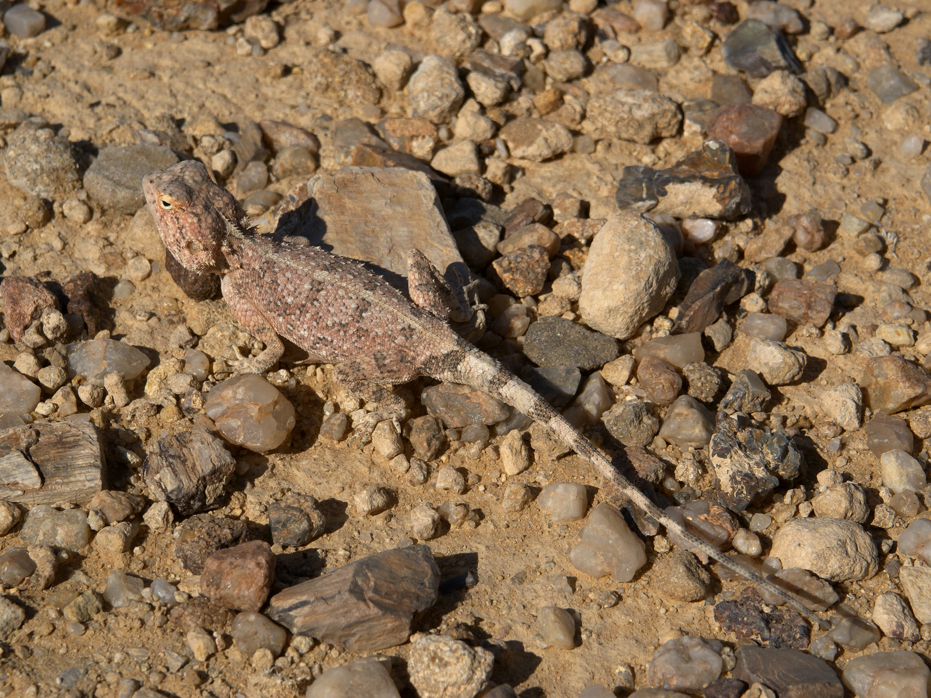 Ground agama, blending into his environment at the petrified forest, east of Doro !Nawas, Namibia